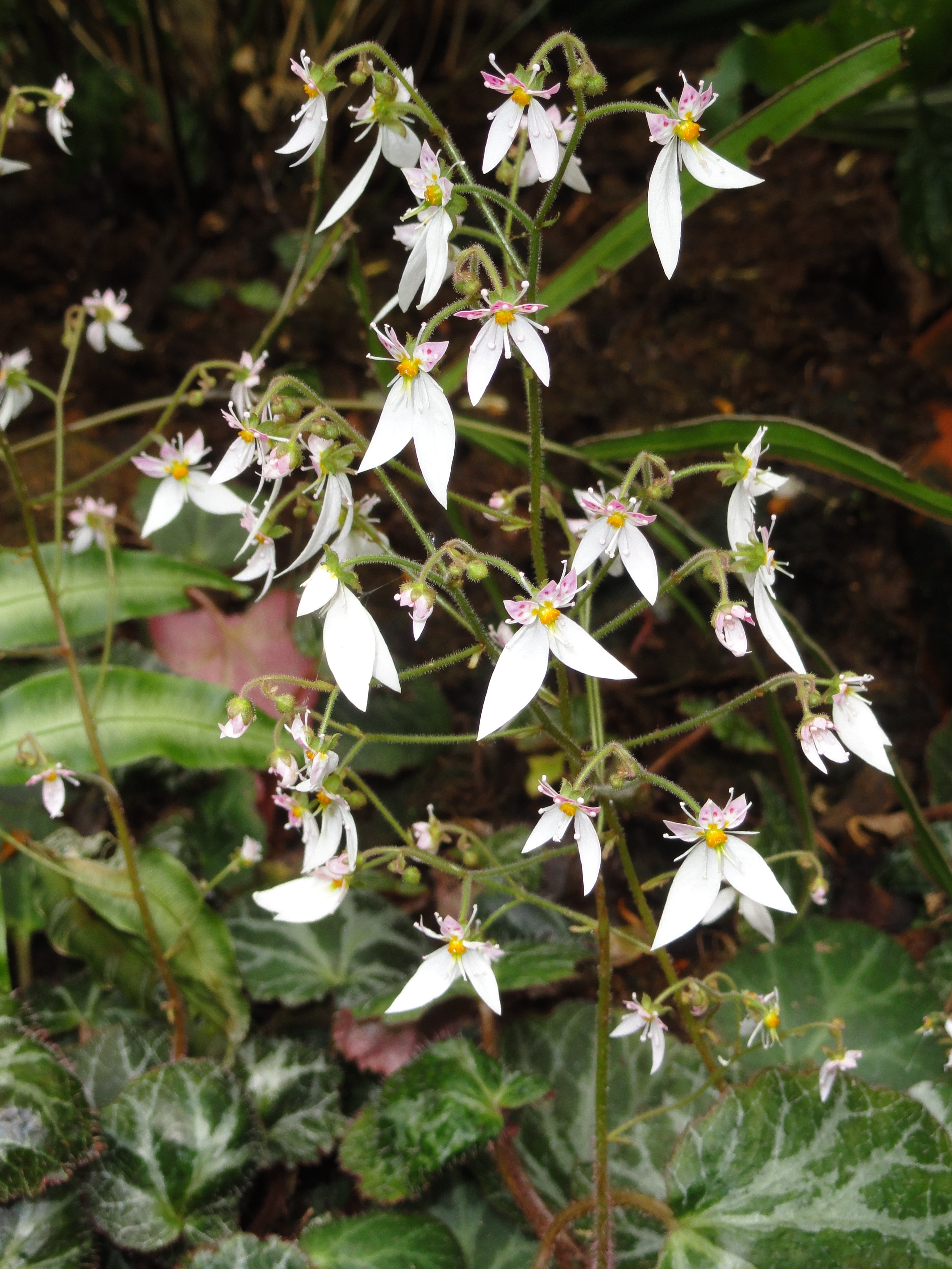 Botanical specimen in the University of Copenhagen Botanical Garden, Copenhagen, Denmark.